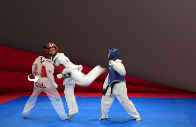 taekwondo